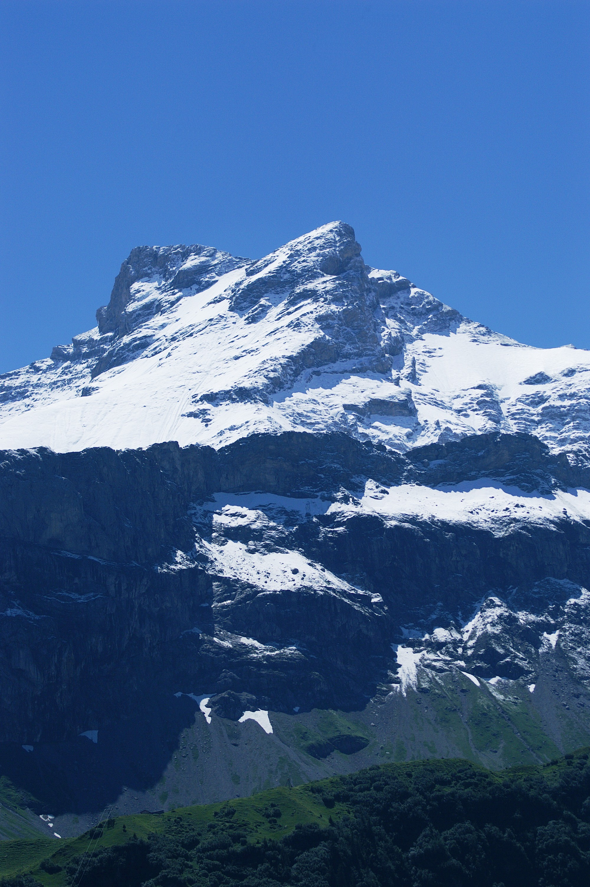 Klausen Pass (el. 1948 m.) is a high mountain pass in the Swiss Alps connecting the cantons of Uri and Glarus.